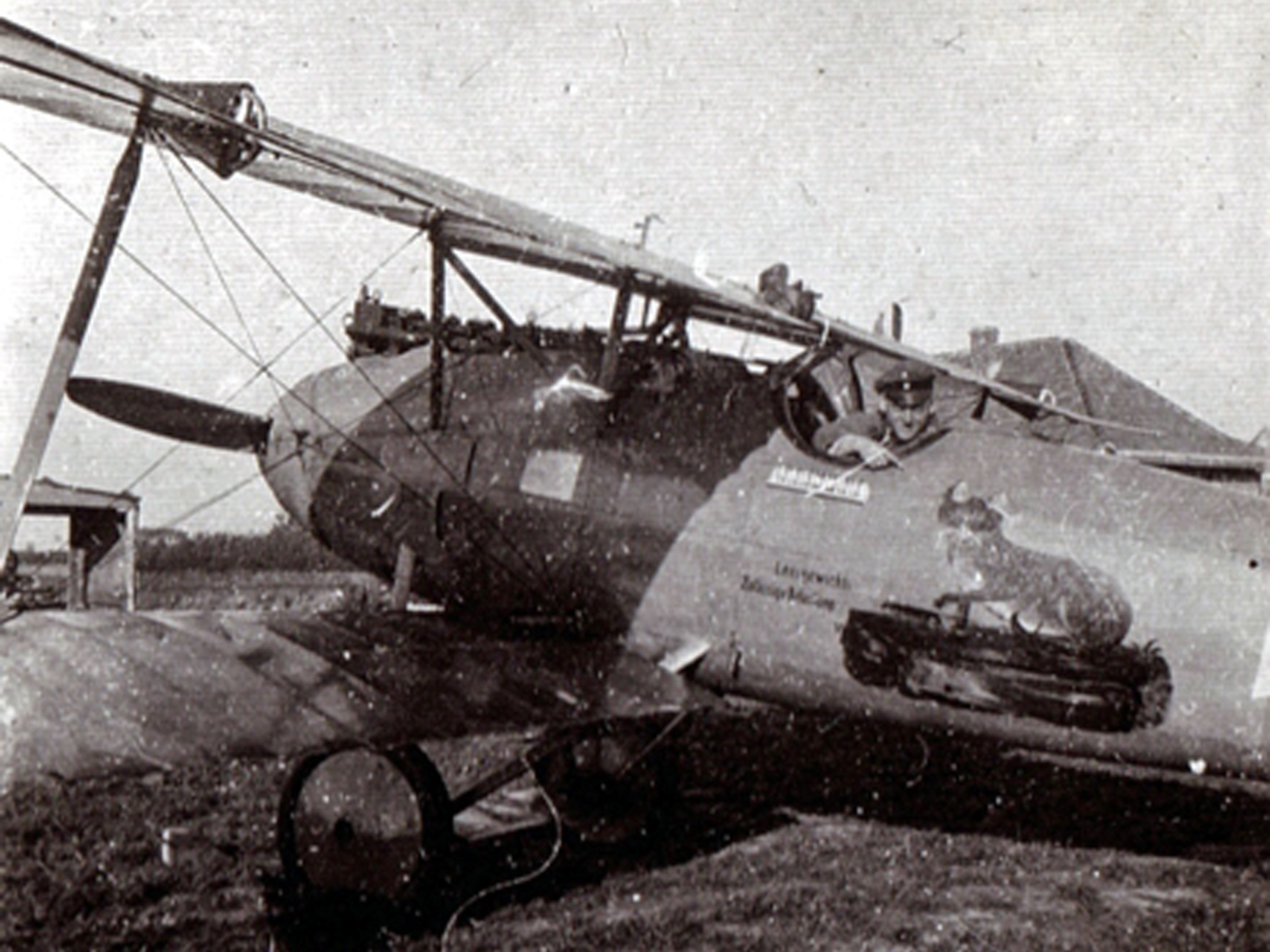 Kurt Katzensteins with his Pfalz D.IIIa